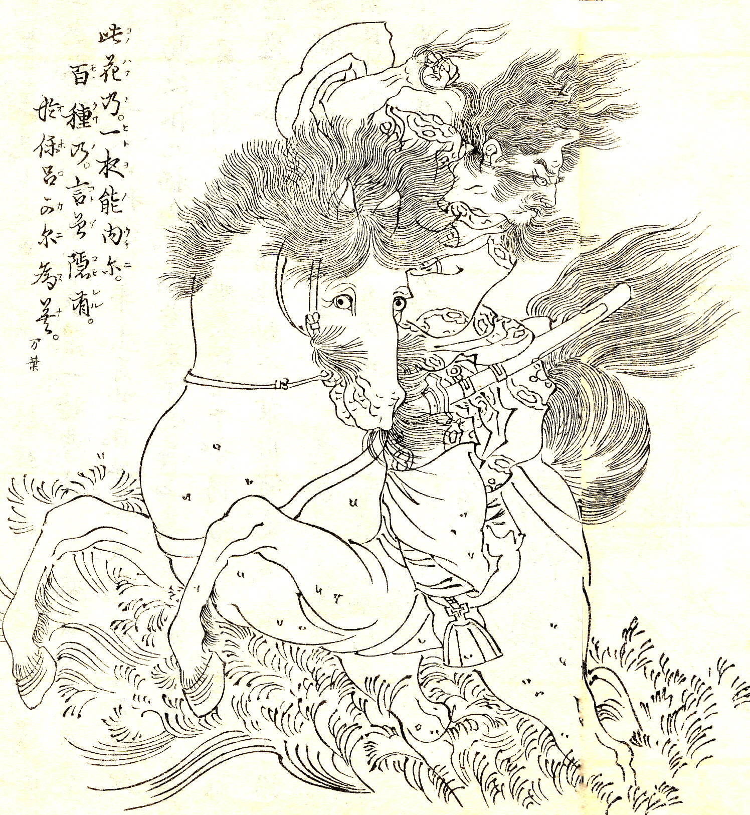 Fujiwara no Hirotsugu (藤原広嗣) was a Japanese courtier in Nara era.